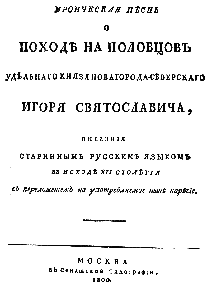 Front page of 1800 edition of the "Слово о полку Игореве"